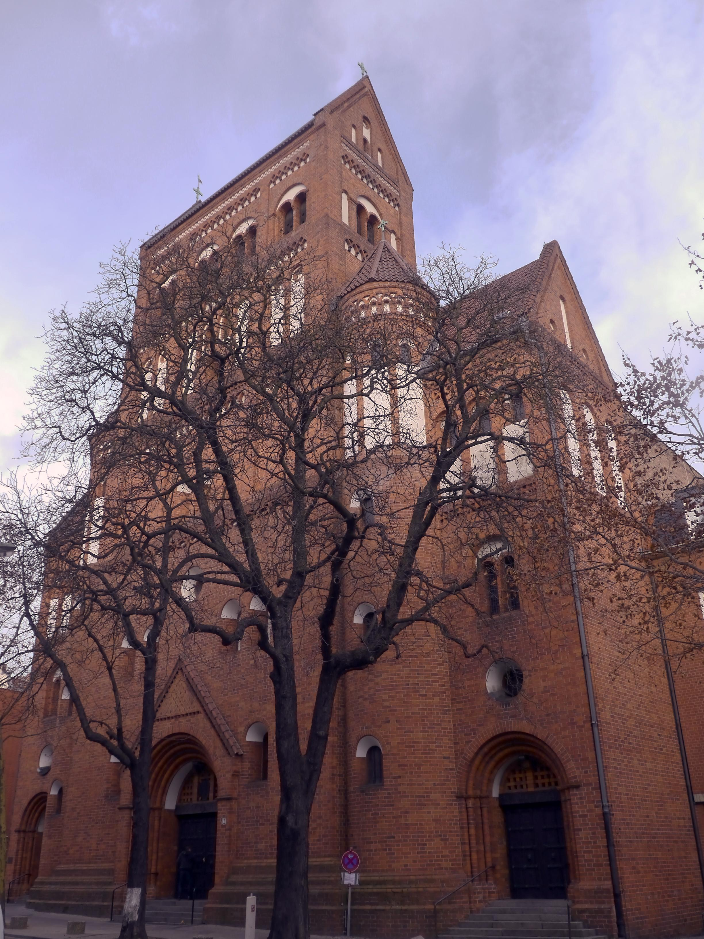 Rosenkranz-Basilika Berlin-Steglitz